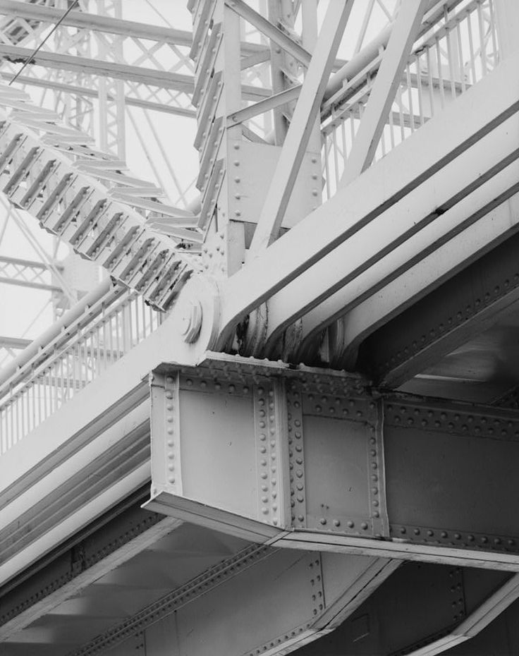 HAER PA,2-CORA,1-21 Photographer: (Views 1-27) Robert C. Shelley P.A.C. Spero & Company April 1989 PA-217-21 DETAIL LOWER JOINT, L FROM BELOW AND NORTH Coraopolis Bridge image, from below deck, showing deck girders, eyebar tension members, lattice girders of truss superstructure, retrieved from Historic American Engineering Record